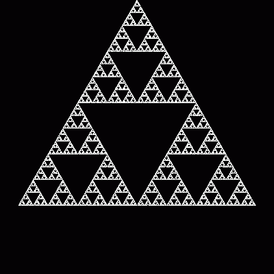 Sierpinski triangle generated using an IFS.